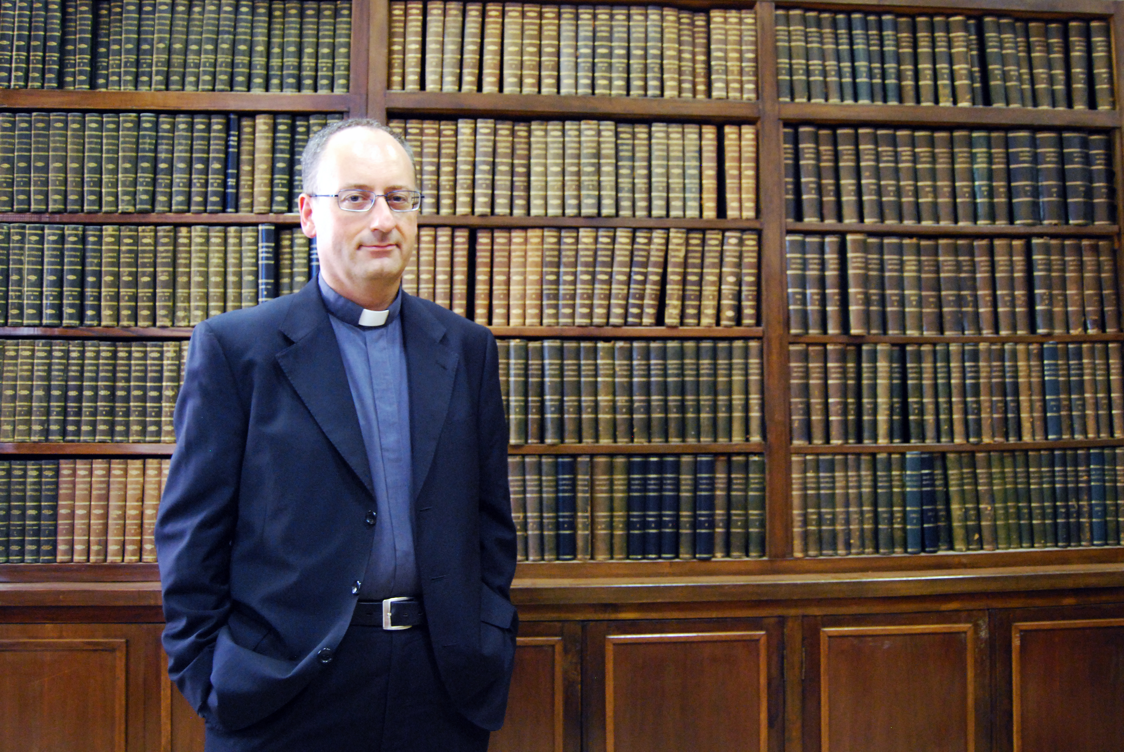 Photo of fr. Antonio Spadaro taken in front of the complete collection of La Civiltà Cattolica